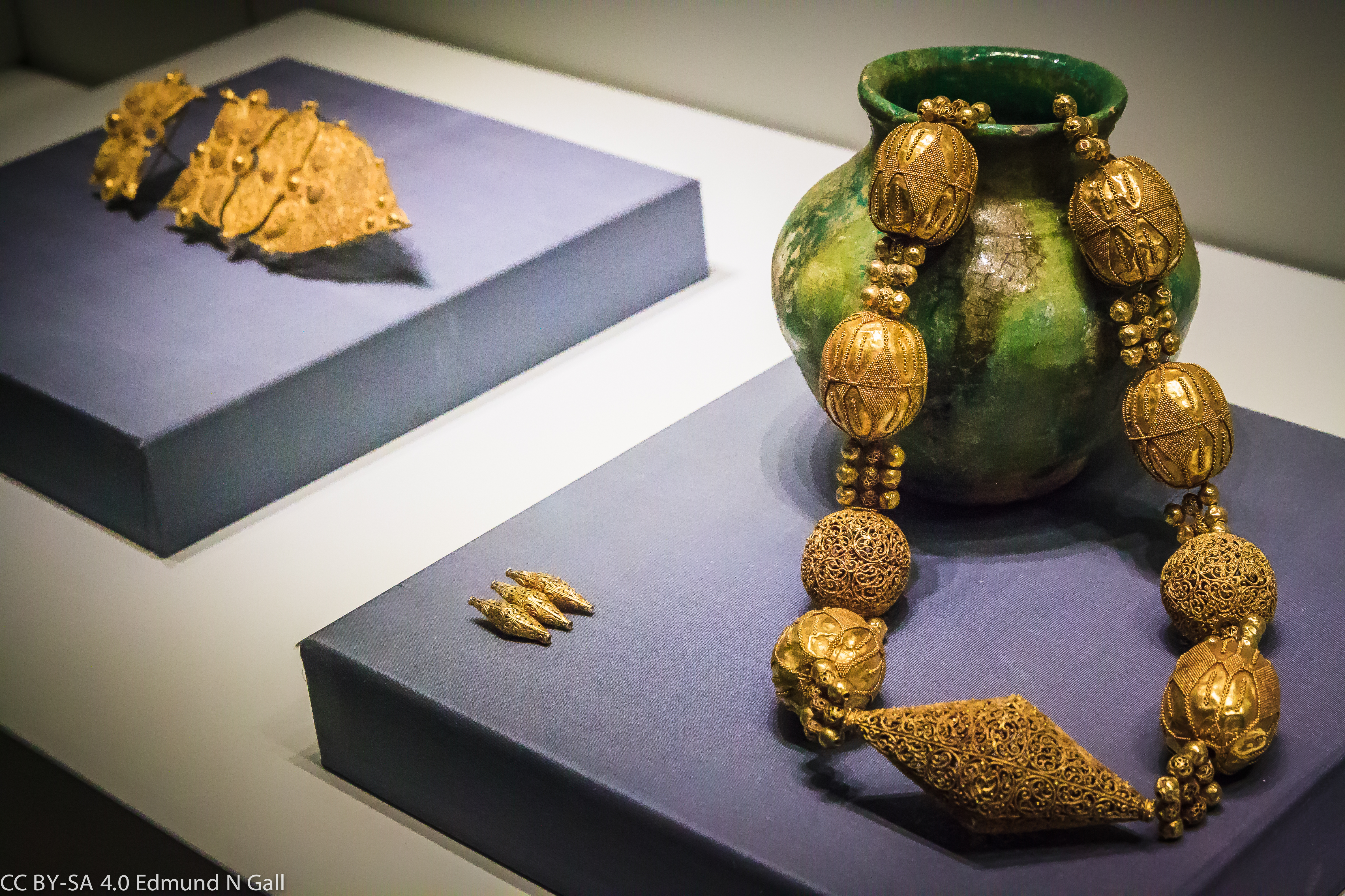 11th Century (Fatimid Period) jewelry from Caesarea in the Muslims and Crusaders Exhibit...